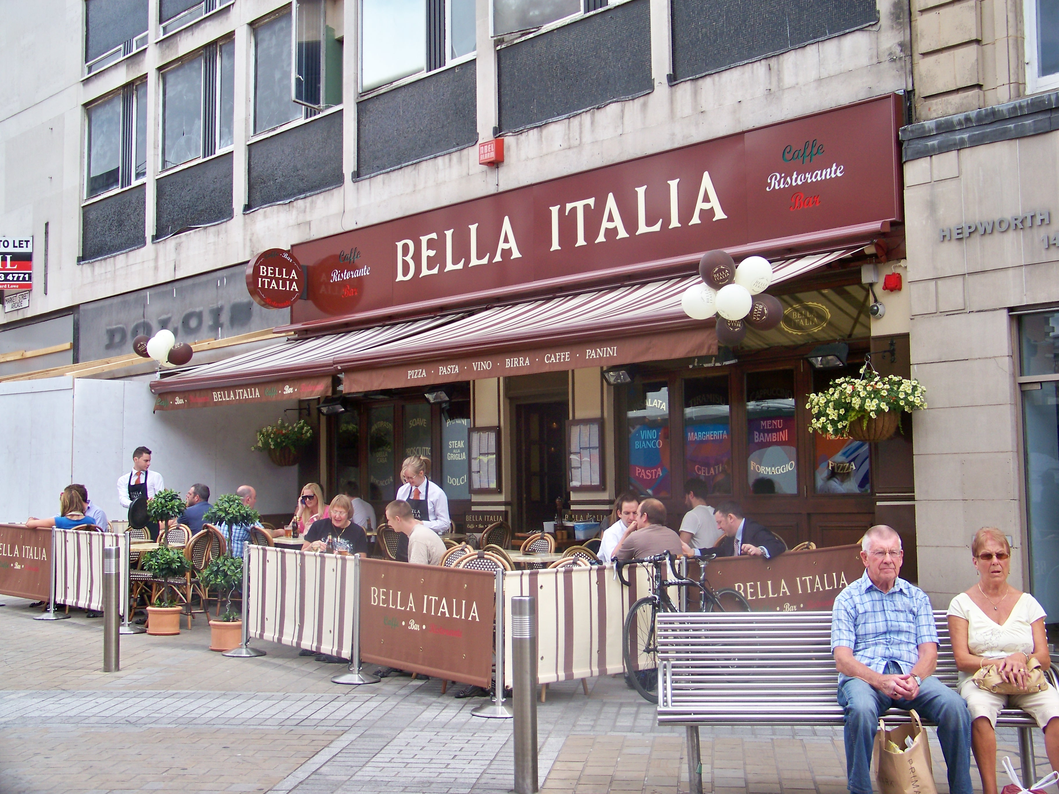 Bella Italia, an Italian restaurant on Briggate in Leeds, West Yorkshire. Taken on the afternoon of Thursday the 24th of June 2010.